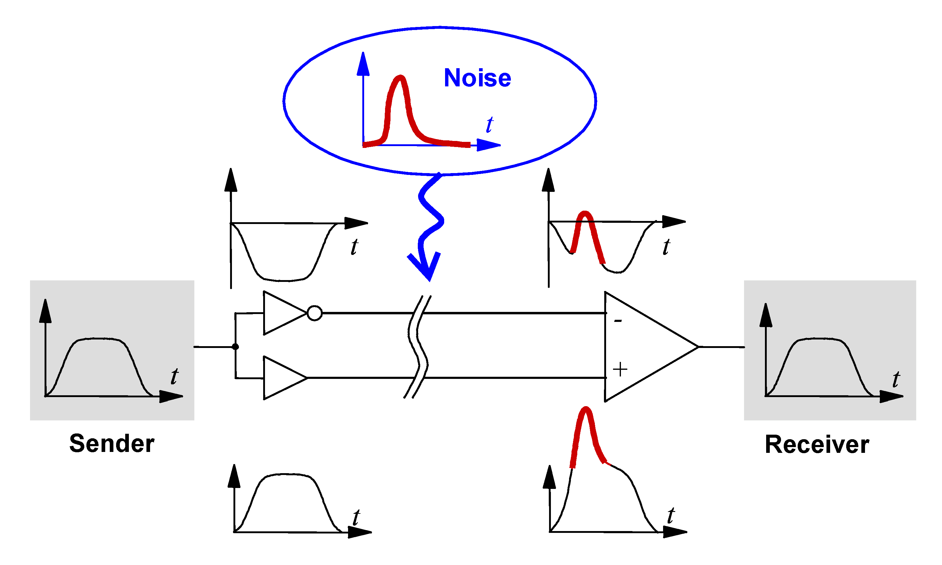 Noise reduction using differential signaling